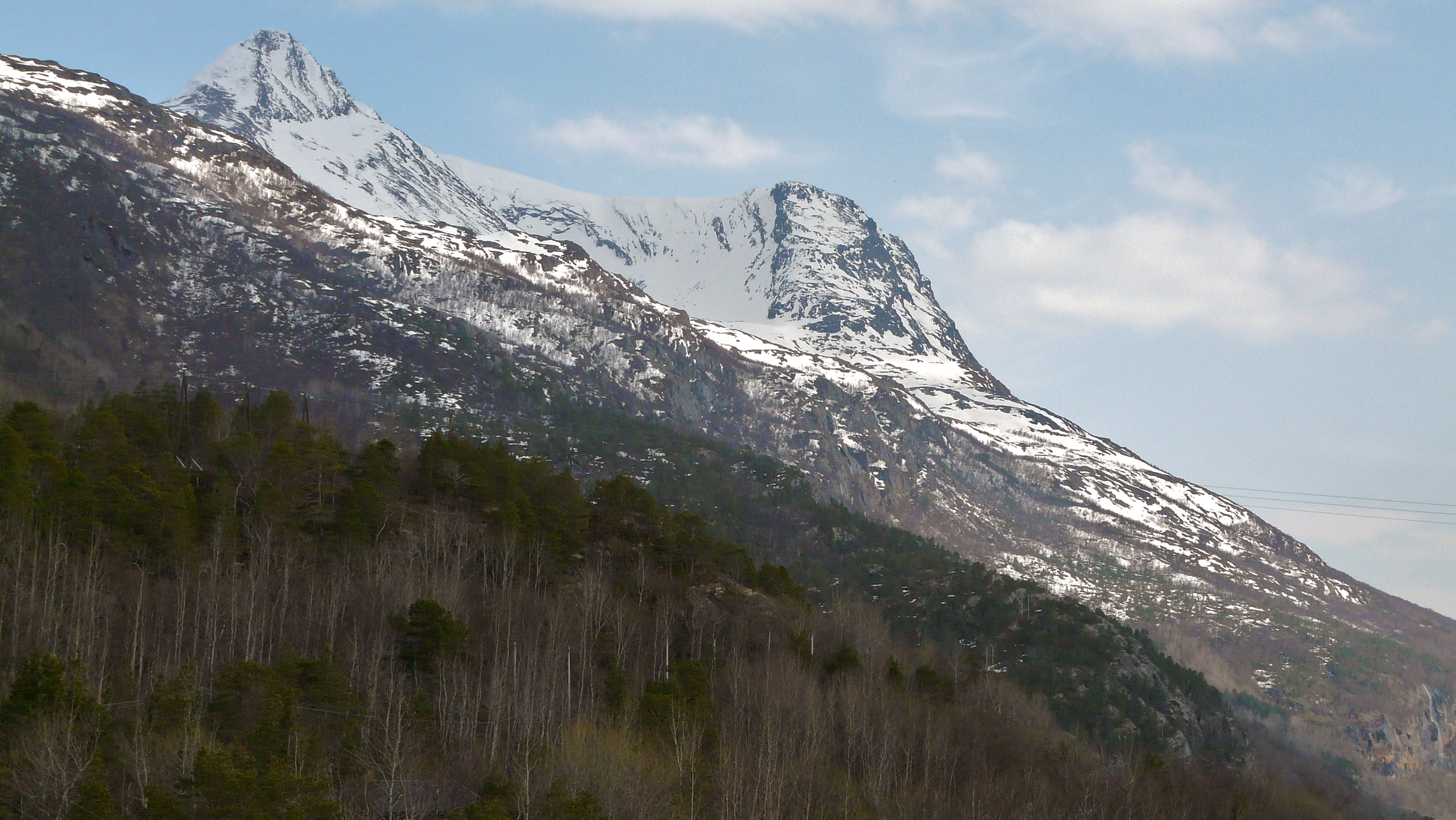 A view to Skjomtinden and Kongsbakktinden from the eastern head of Skjombrua in 2009 May.